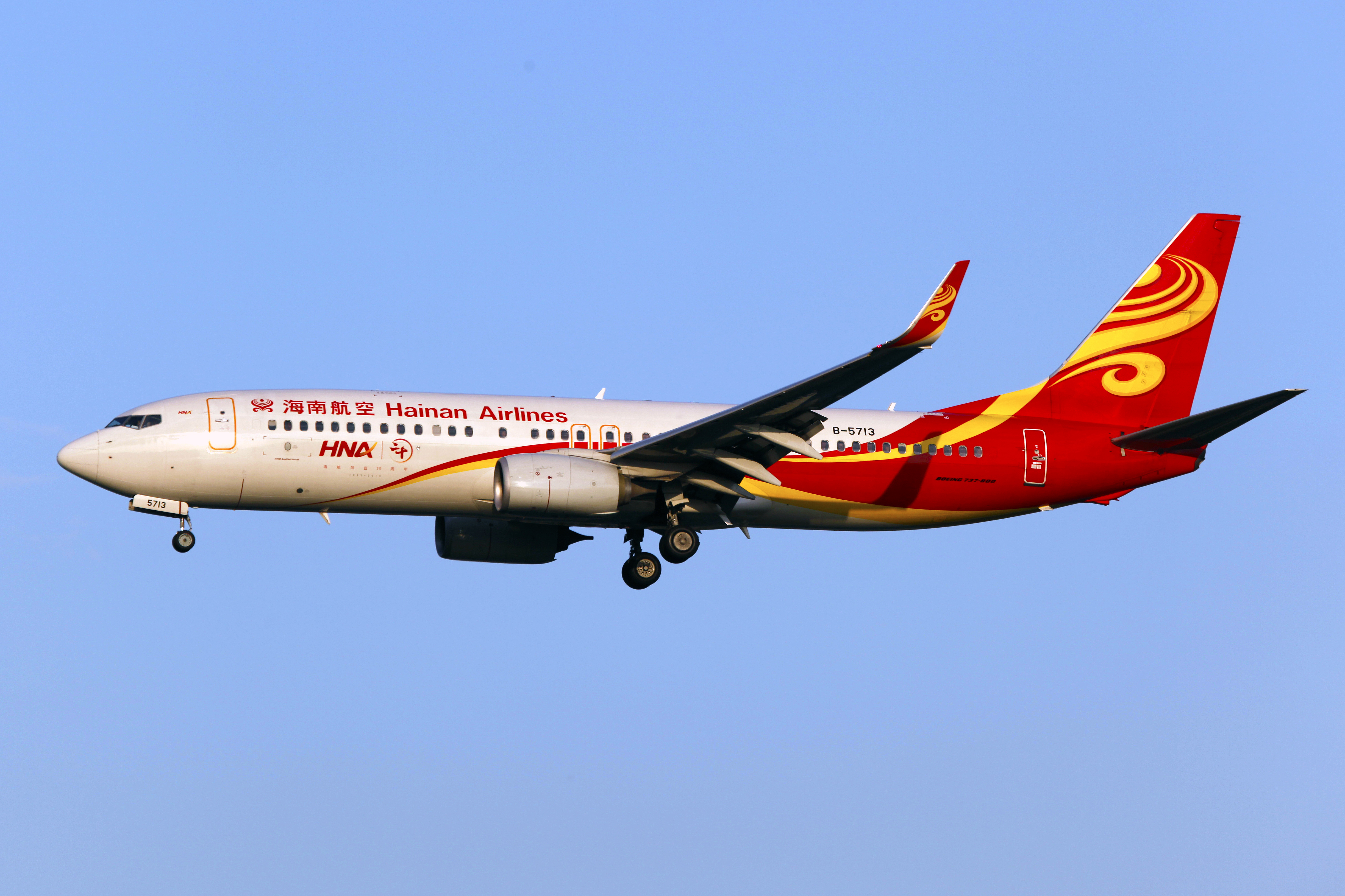 B-5713 | Hainan Airlines | Boeing 737-84P(WL) | Beijing Capital International Airport [PEK]